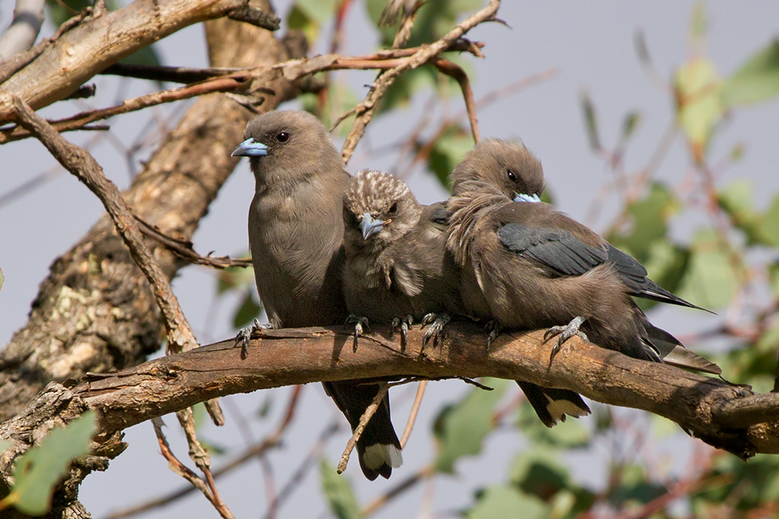 One of the many families active in the Rise and Shine at present.